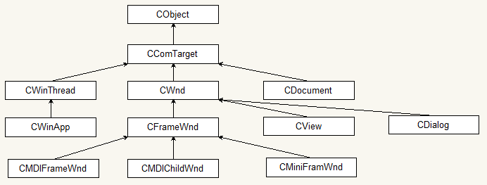 MFC Class hierarchy for Windows message process flow